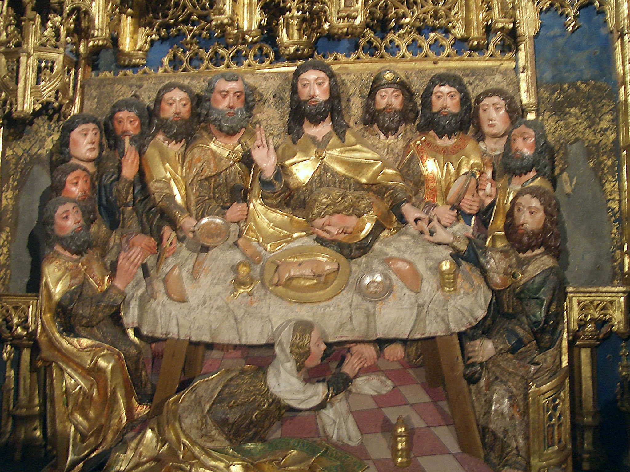 Cartuja de Moraflores (Burgos), Gil de Siloé, Retablo mayor, detail, (The Last Supper)